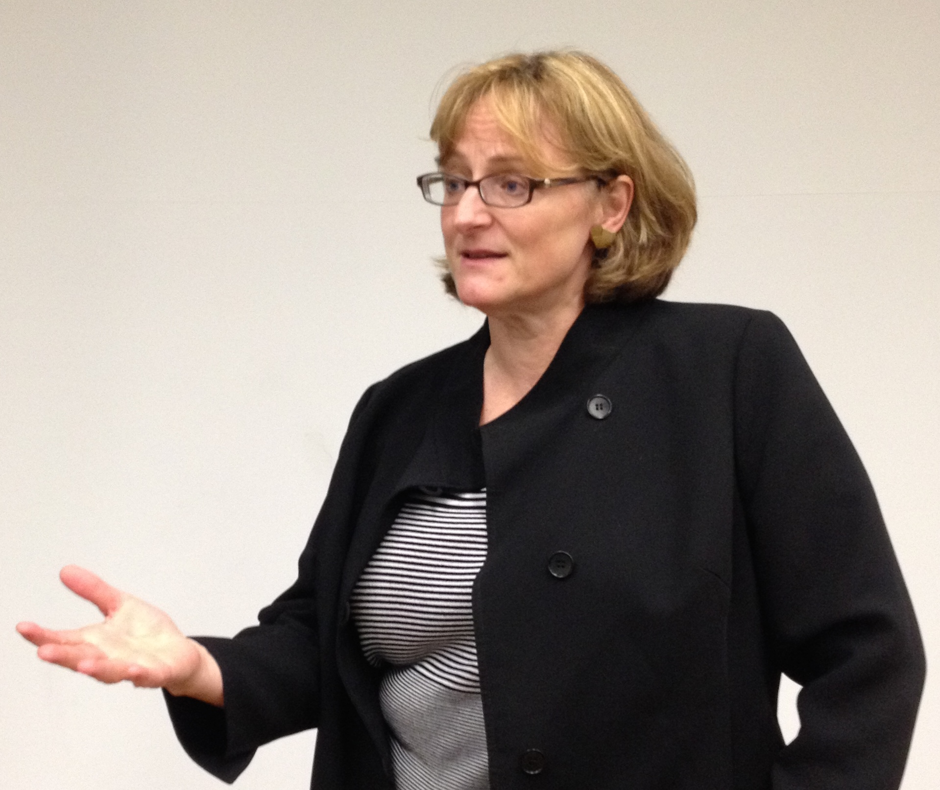 Astronomer Meg Urry presents at Fermilab.